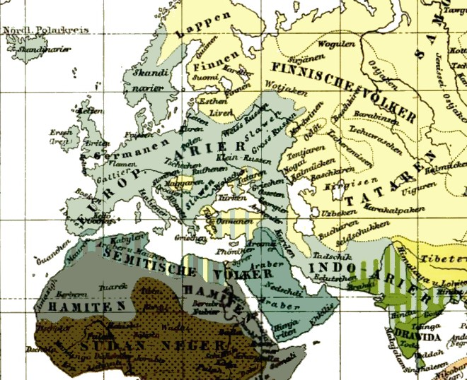 Detail of the ethnographic chart of Meyers Konversationslexikon, 4th edition 1885-1890, to illustrate the notion of "Aryan" and "Caucasian" at the time. legend (not shown): Caucasian Race: (blue tint) Aryans [European Aryans and Indo-Aryans; "Aryans" corresponds to "Indo-Europeans", "Indo-Aryans" to "Indo-Iranians"] Semites Hamites Mongolian Race North Mongolian (light yellow) [corresponds to "Altaic"] Tibetans (dark yellow) Negroid Race African Negroids (dark brown) uncertain classification Dravidians and Singhalese (green)